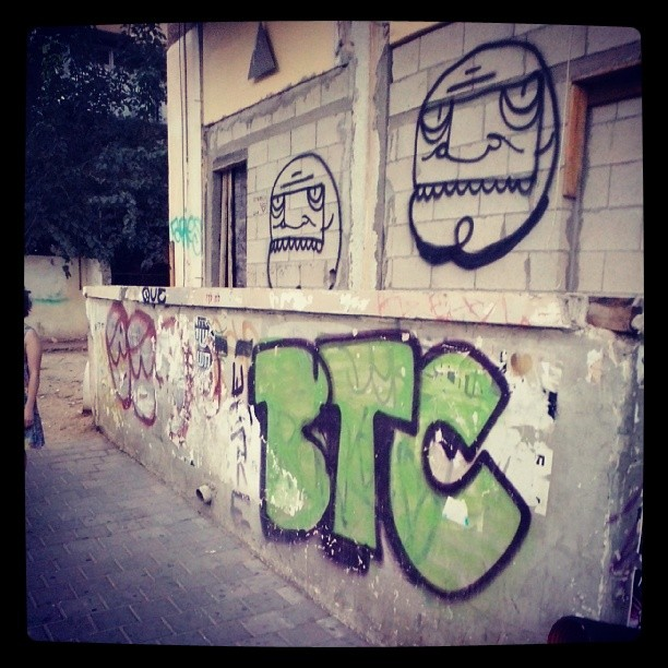 Graffiti in Tel Aviv. "BTC" tag, Bitcoin was probably not intended.